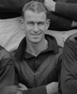 Photograph of Harold Albiston from 1936-1940